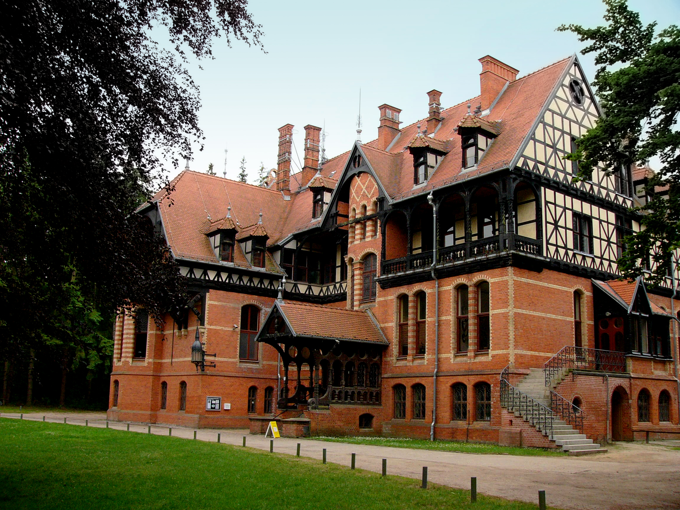 The Hunting Castle Gelbensande is located in Mecklenburg-Vorpommern in Germany.